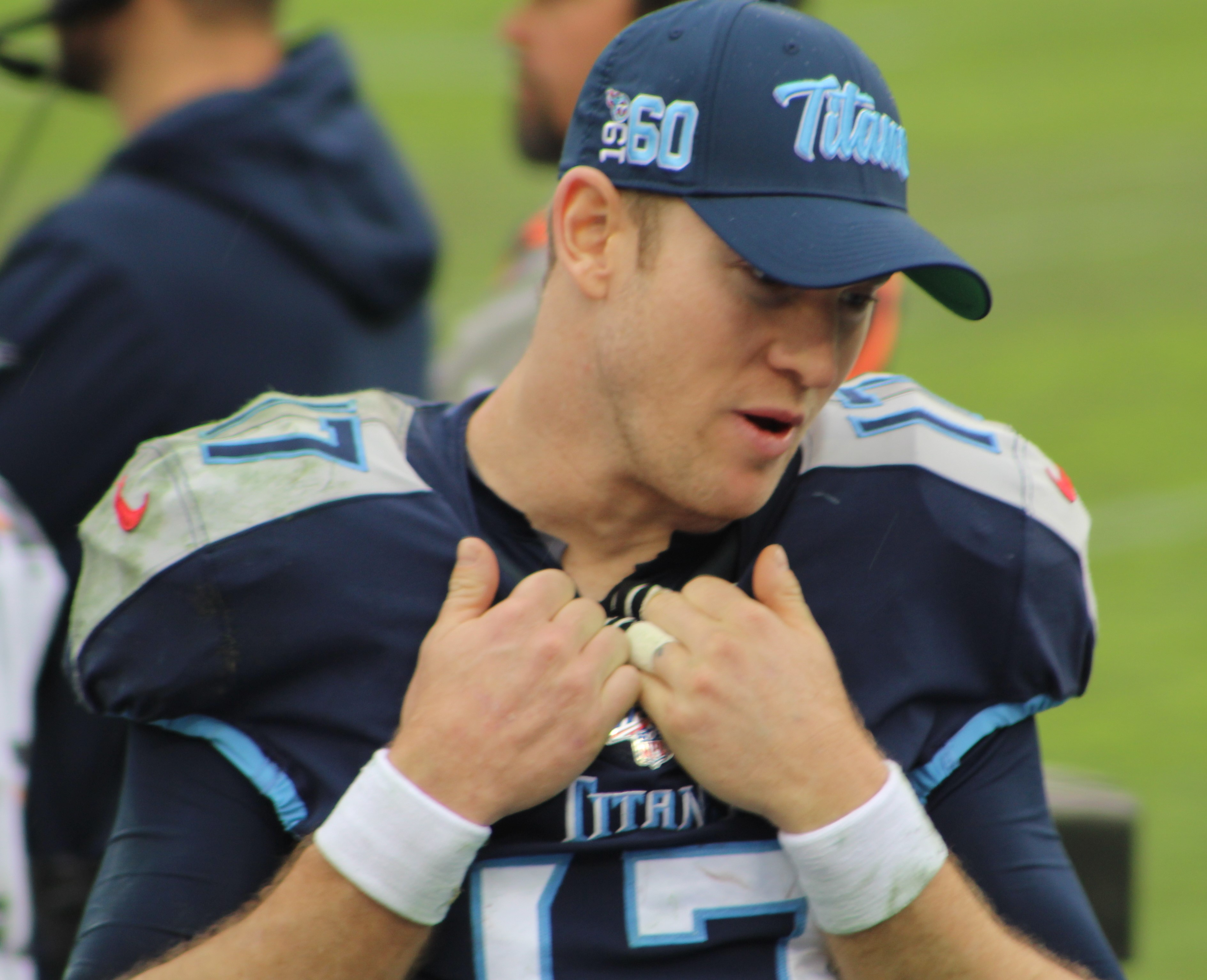 Tannehill with the Titans on December 22, 2019